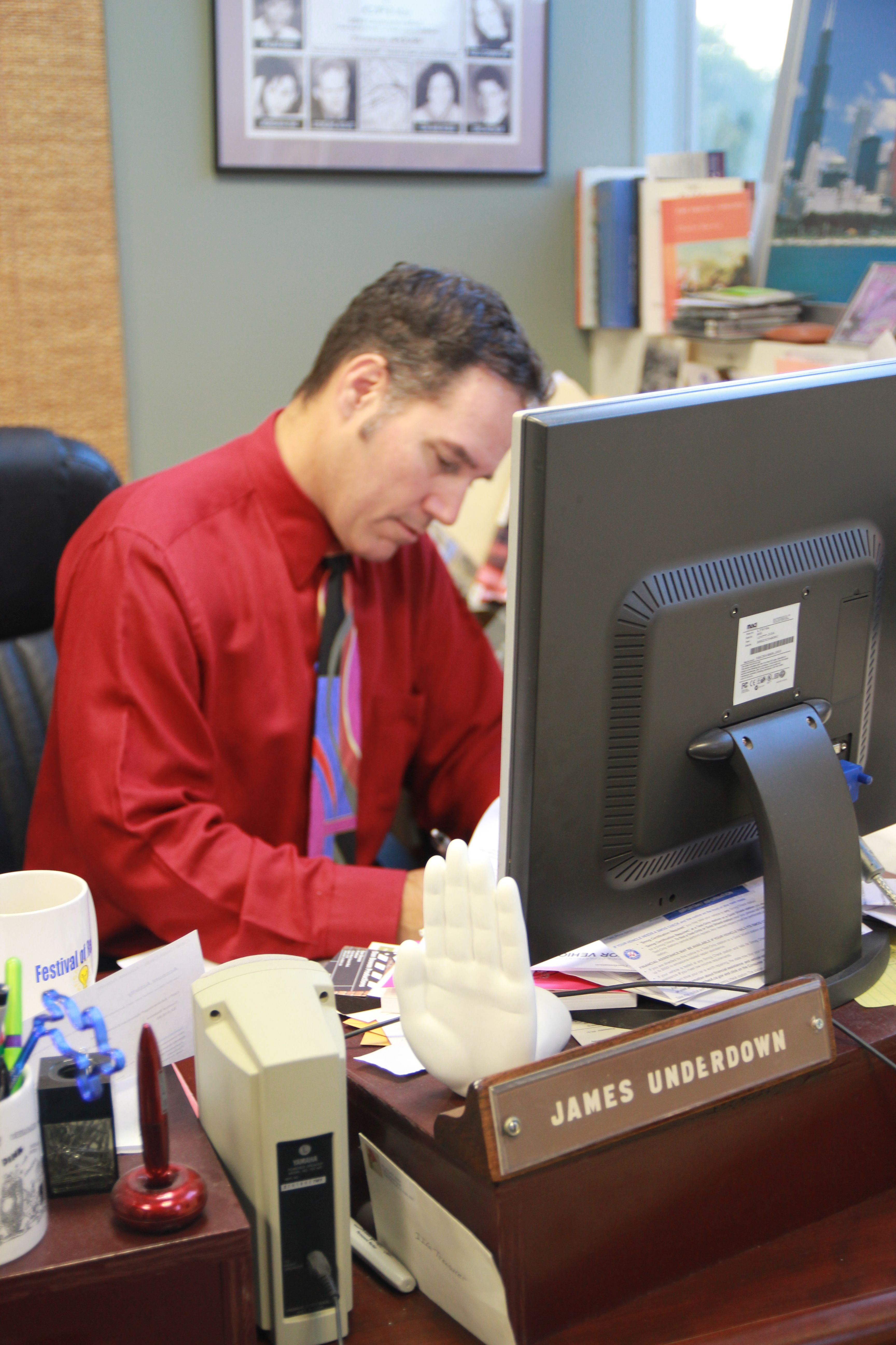 James Underdown hard at work in his office as Director at the Center For Inquiry West in Hollywood. Portrait taken at the IIG 10th Anniversary Party.